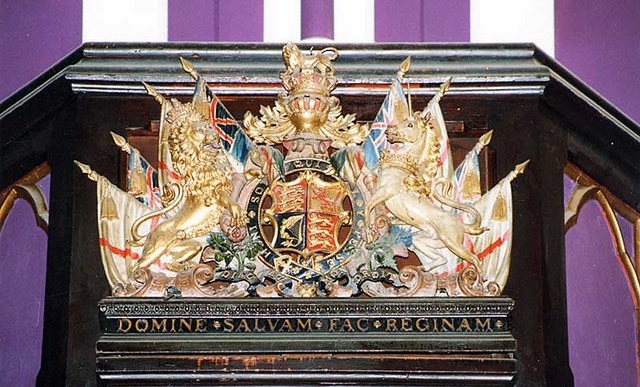 St Thomas, Newport - Royal Arms